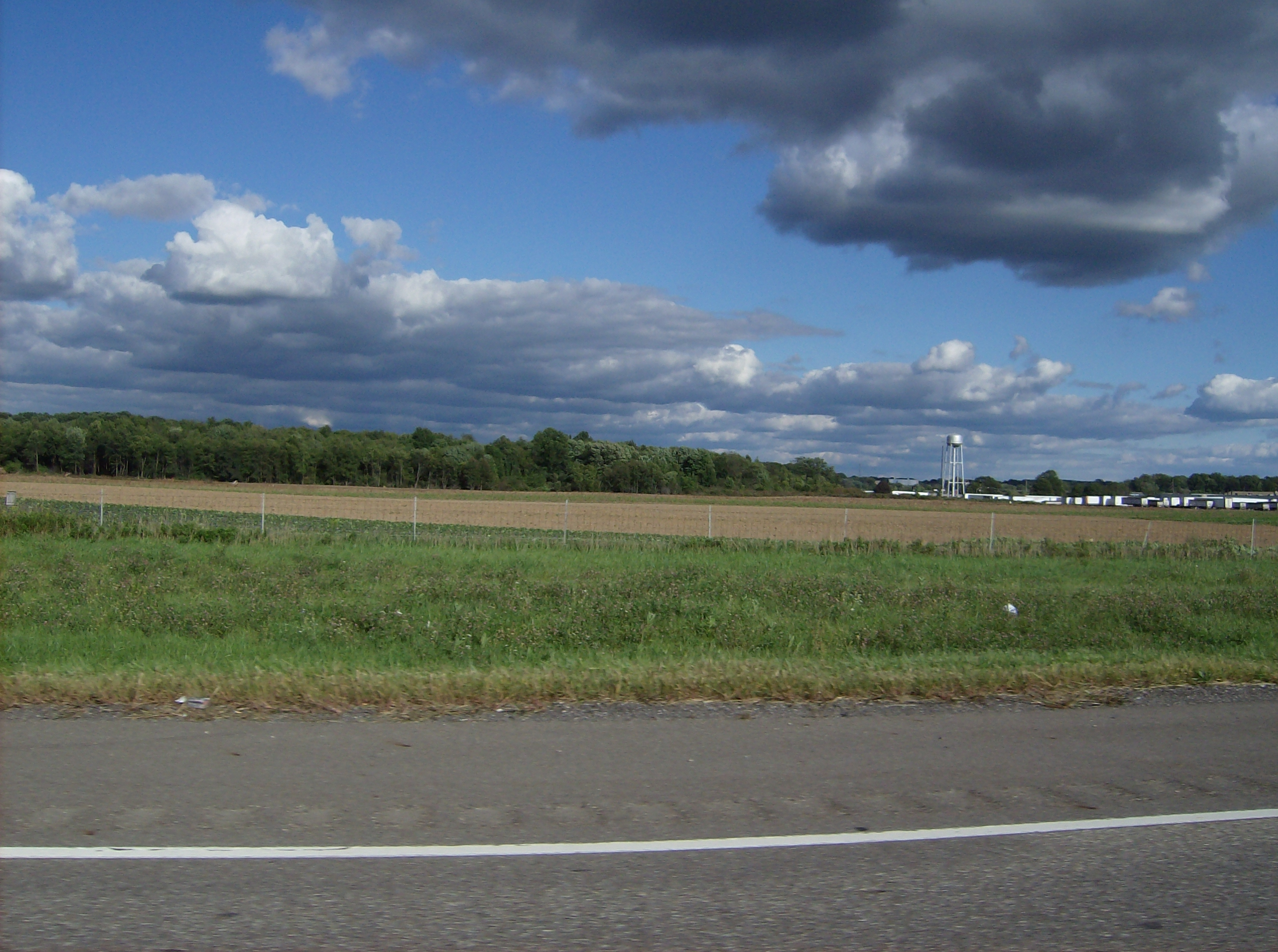 Fields and woods of Fairfield Township, Columbiana County, Ohio, United States. Picture taken eastward from north-westbound State Route 11.